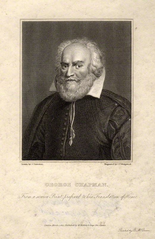 Portrait of George Chapman